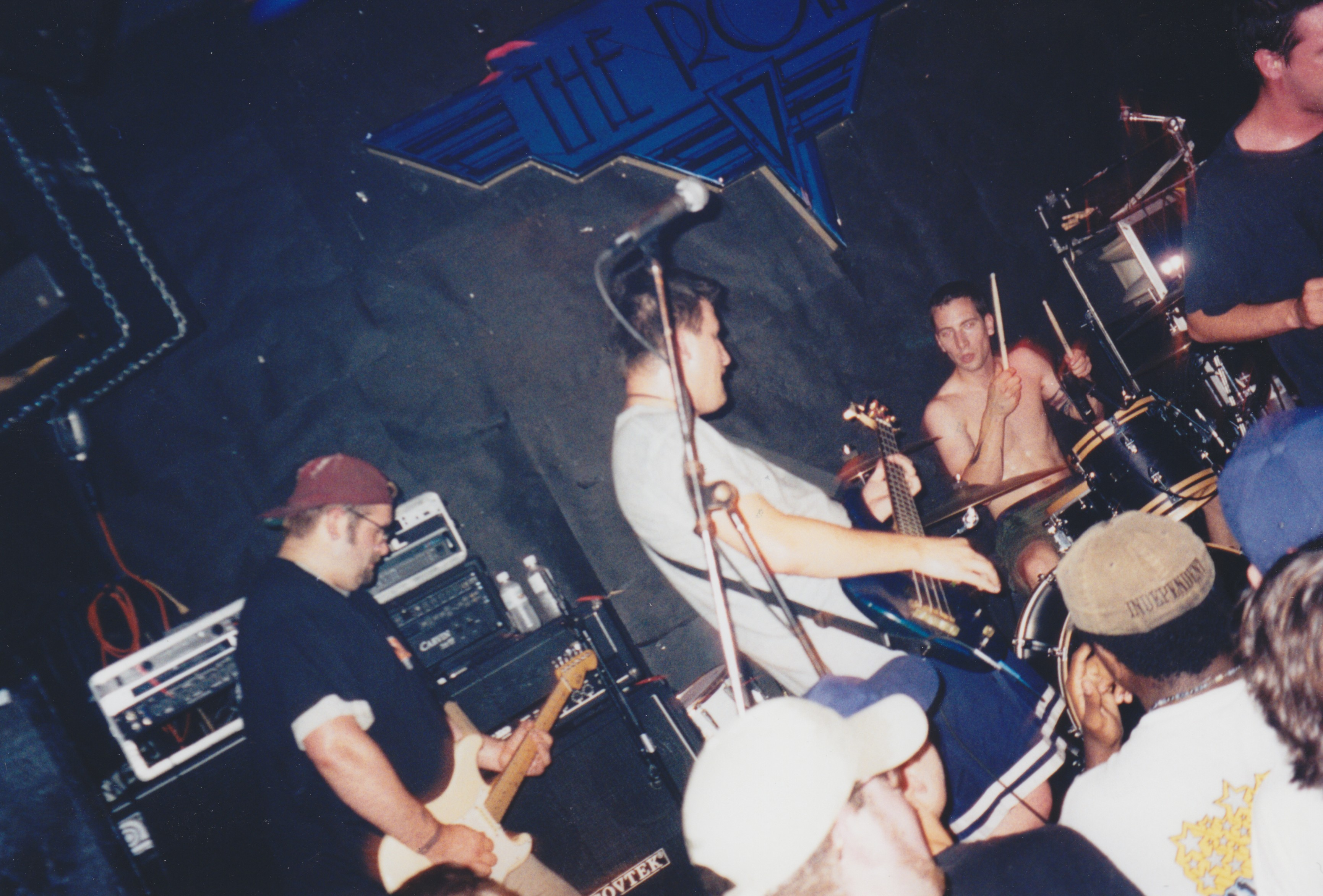 Boysetsfire